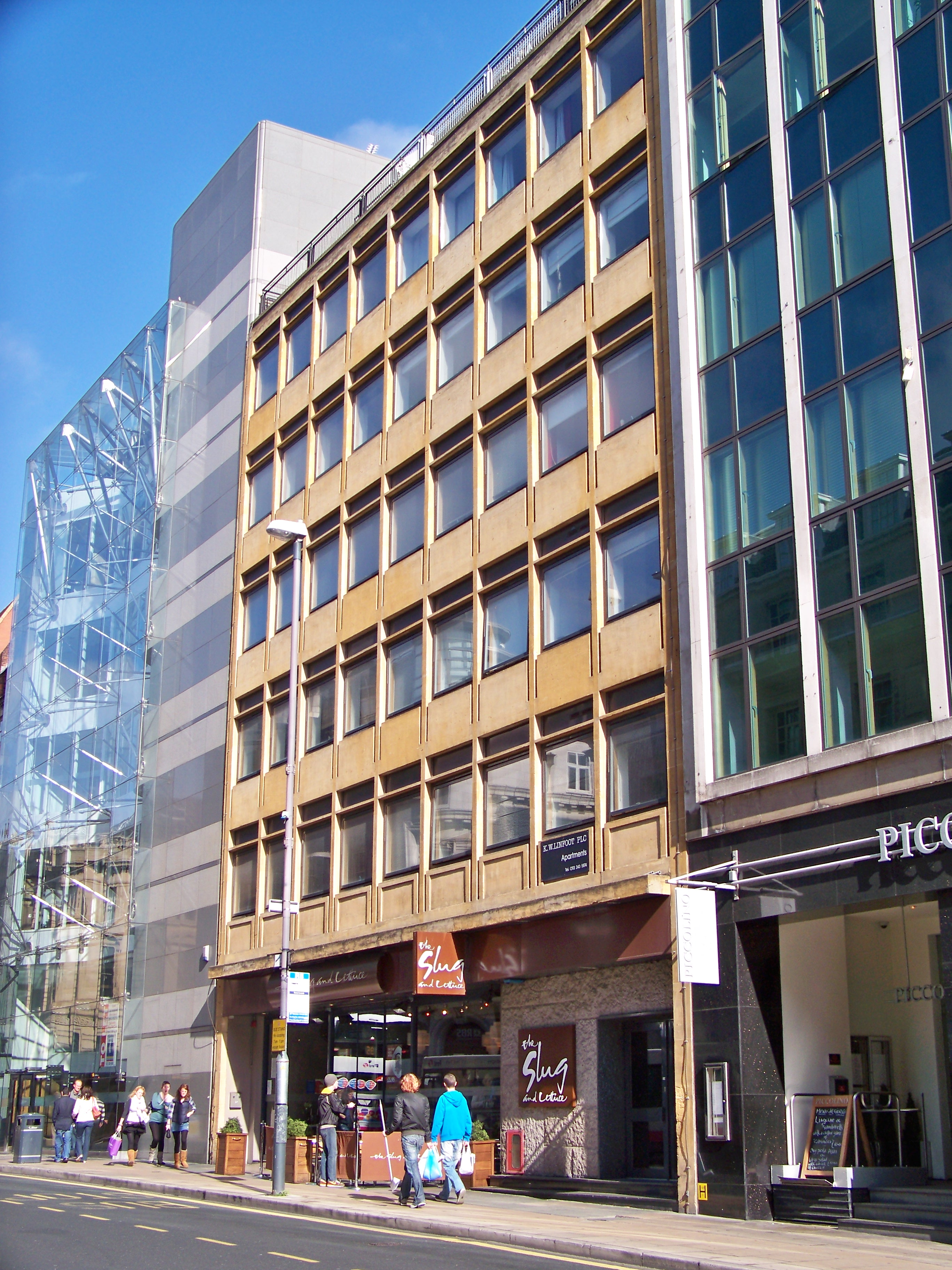 The Slug and Lettuce pub on Park Row, Leeds. Taken on the afternoon of Saturday the 3rd of October 2009.